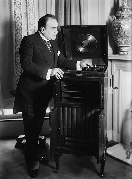 Enrico Caruso, 1873-1921, Caruso with phonograph